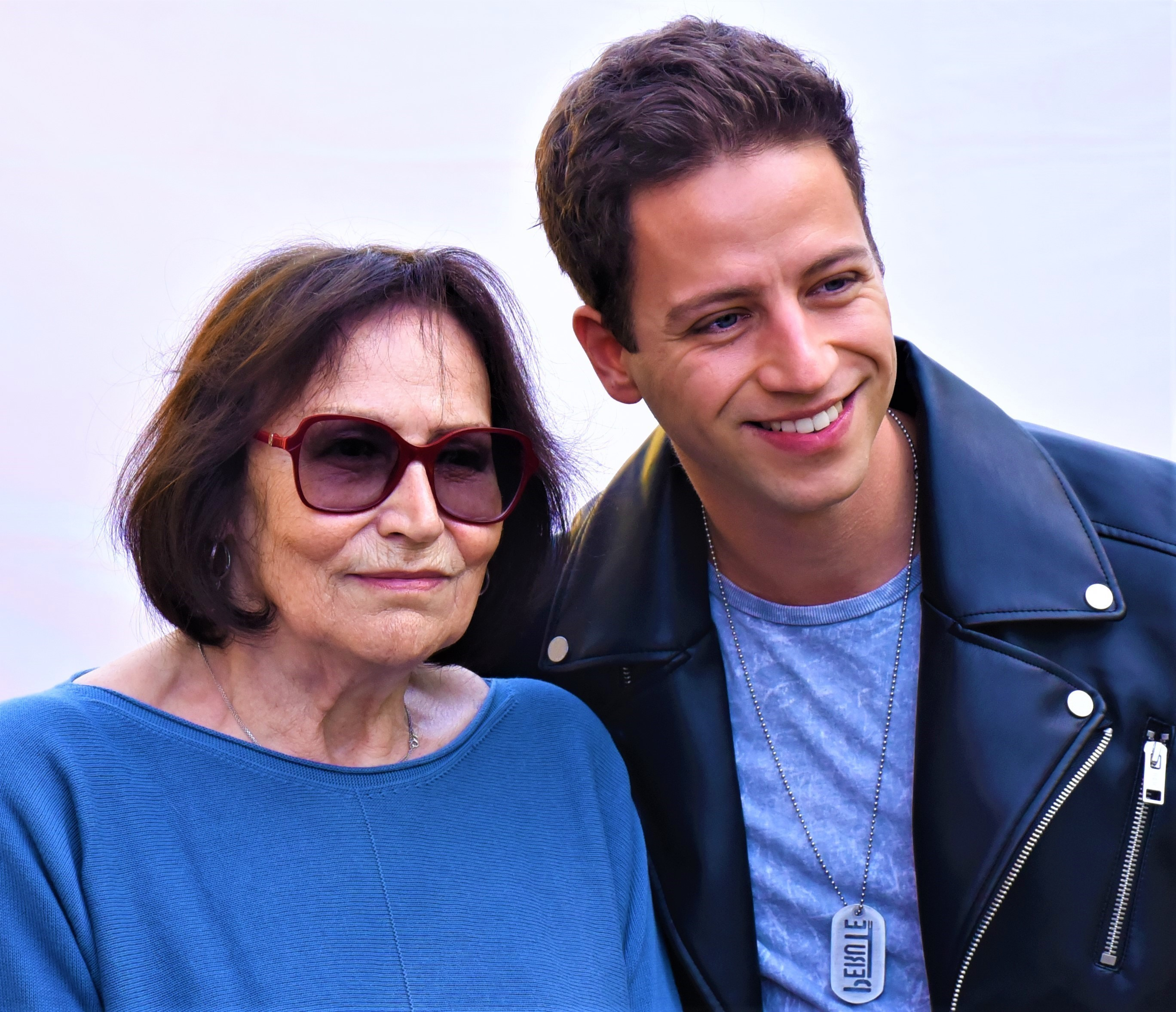 Marta Kubišová and Milan Peroutka, Czech vocalists